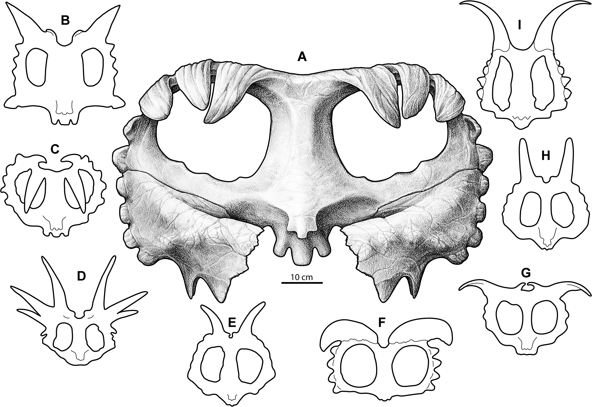 Comparative reconstructions of centrosaurine ceratopsid parietals. A, Wendiceratops pinhornensis; B, Xenoceratops foremostensis; C, Centrosaurus apertus; D, Styracosaurus albertensis; E, Achelousaurus horneri; F, Albertaceratops nesmoi; G, Pachyrhinosaurus lakustai; H, Einiosaurus procurvicornus; I, Diabloceratops eatoni.